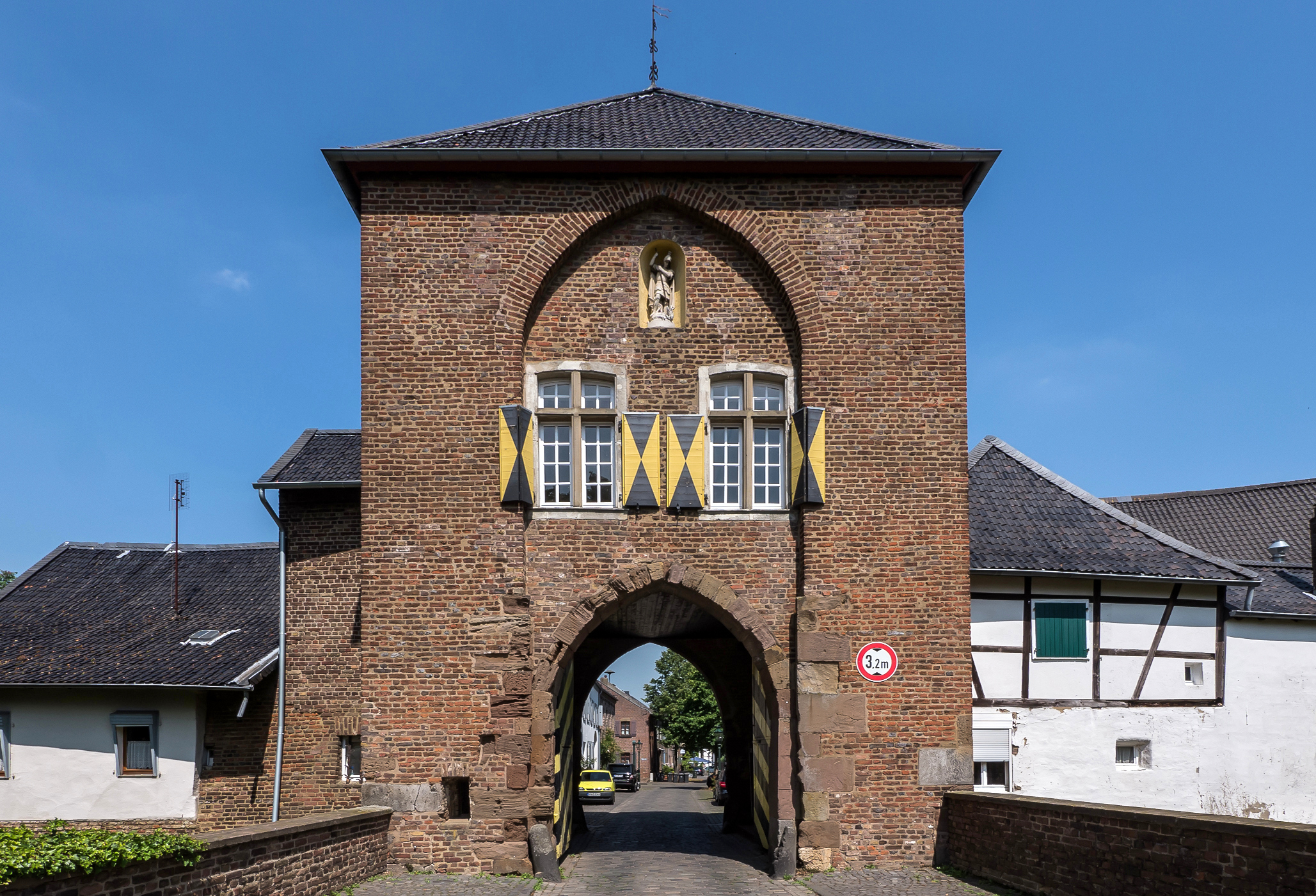 Kaster - Hauptstraße 80 Agathator, Alt-Kaster IThis is a photograph of an architectural monument., no. 95